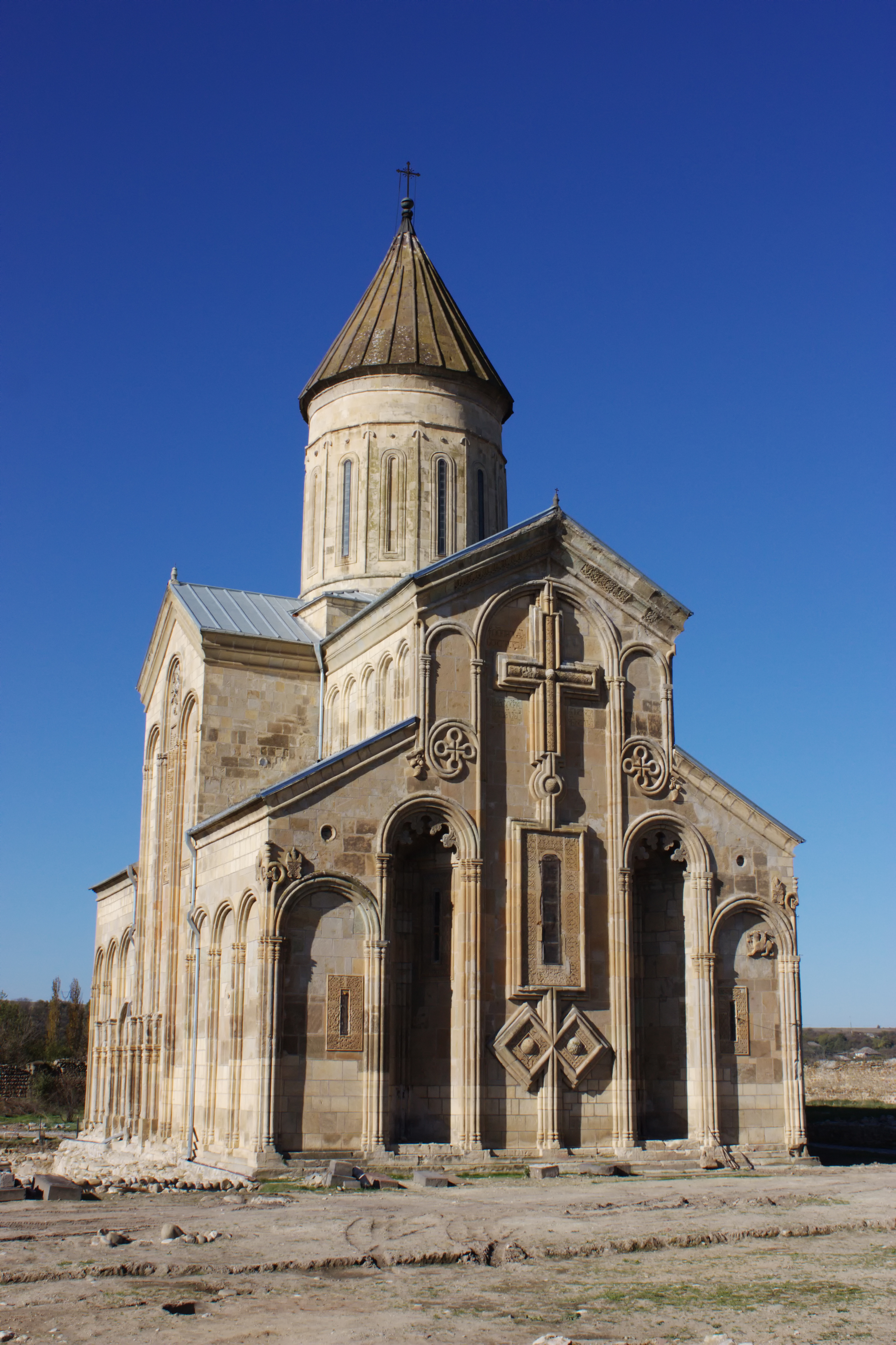 Samtavisi Cathedral is an eleventh-century Georgian Orthodox cathedral in eastern Georgia, in the region of Shida Kartli, some 45km from the nation’s capital Tbilisi. The cathedral is now one of the centers of the Eparchy of Samtavisi and Gori of the Georgian Orthodox Church. The cathedral is located on the left bank of the Lekhura River, some 11km of the town of Kaspi. According to a Georgian tradition, the first monastery on this place was founded by the Assyrian missionary Isidore in 572 and later rebuilt in the 10th century. Neither of these buildings has survived however. The earliest extant structures date to the eleventh century, the main edifice being built in 1030 as revealed by a now lost stone inscription. The cathedral was built by a local bishop and a skilful architect Hilarion who also authored the nearby church of Ashuriani. Heavily damaged by a series of earthquakes, the Cathedral was partially reconstructed in the 15th and 19th centuries. The masterly decorated eastern façade is the only survived original structure.